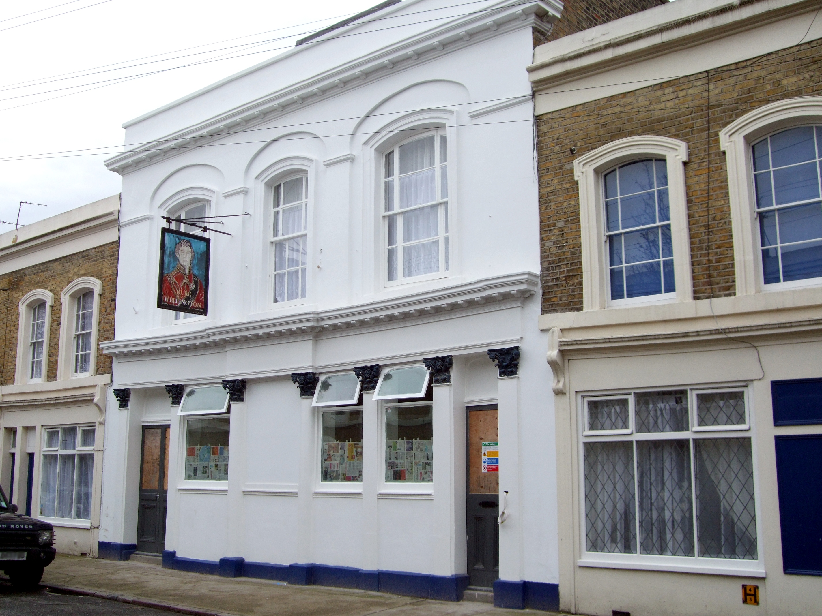 Brightly repainted former pub, just off Old Ford Rd. Address: 52 Cyprus Street (formerly Wellington Street). Owner: Watney Combe Reid (former). Links: Dead Pubs (history)